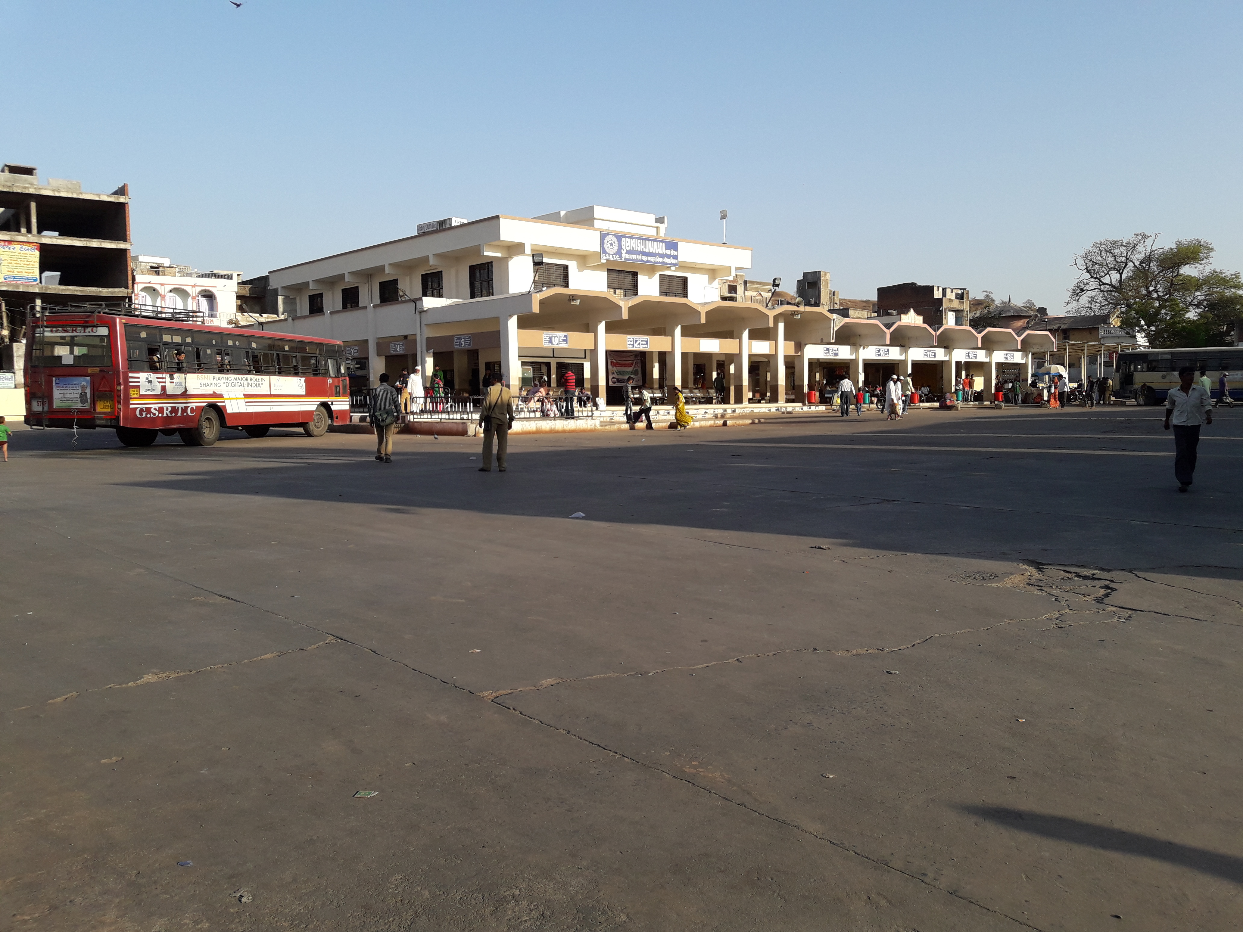 GSRTC Bus Station, Lunavada, Gujarat,India.